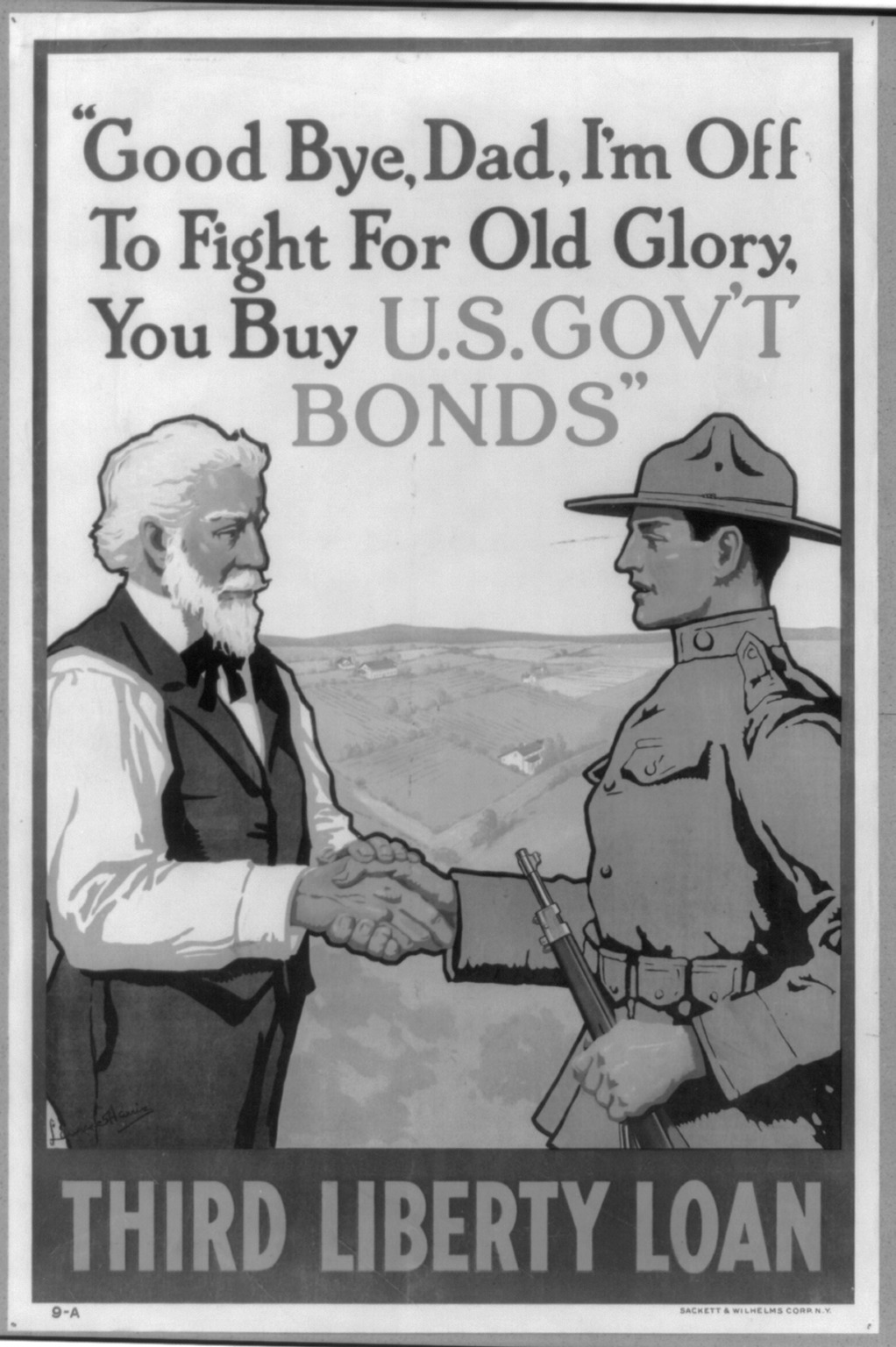 Title: "Good bye, Dad, I'm off to fight for Old Glory, you buy U.S. gov't bonds" Abstract: Poster showing a young man in uniform shaking the hand of an older man, with a landscape of farms in the distance. Physical description: 1 print (poster) : lithograph, color ; 76 x 50 cm. Notes: Lawrence Harris [sic] ; Sackett & Wilhelms Corp. N.Y.; 9-A.